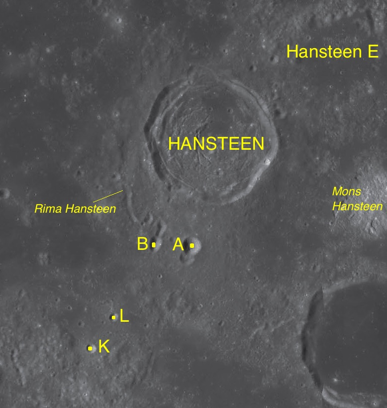 Part of the chart LAC-74